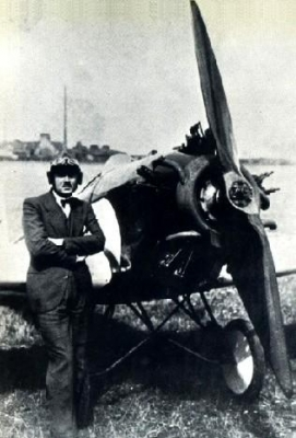 Lauro De Bosis with his plane